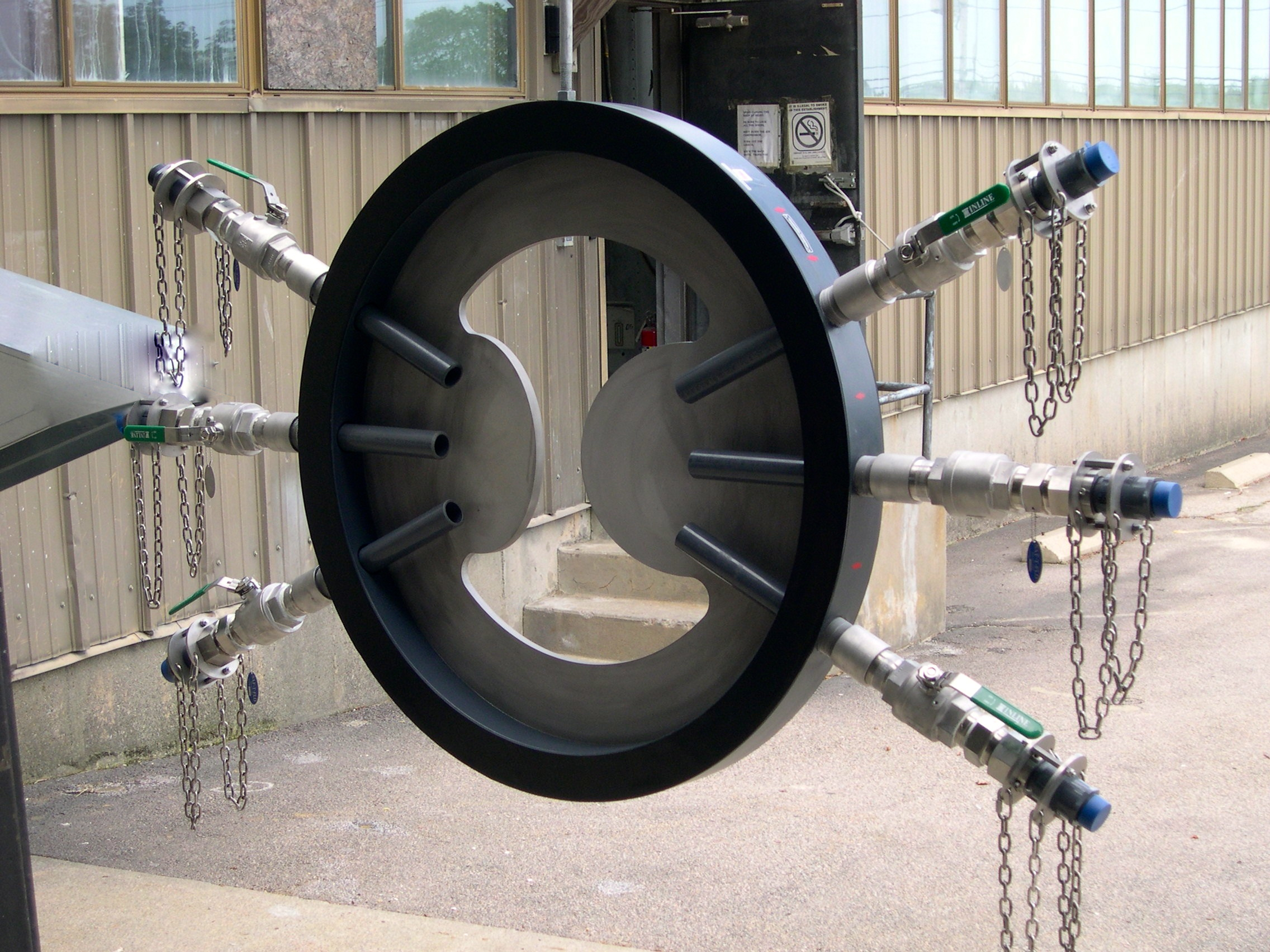 Westfall 2800 Static Mixer with six injection quills for use in a wastewater treatment facility